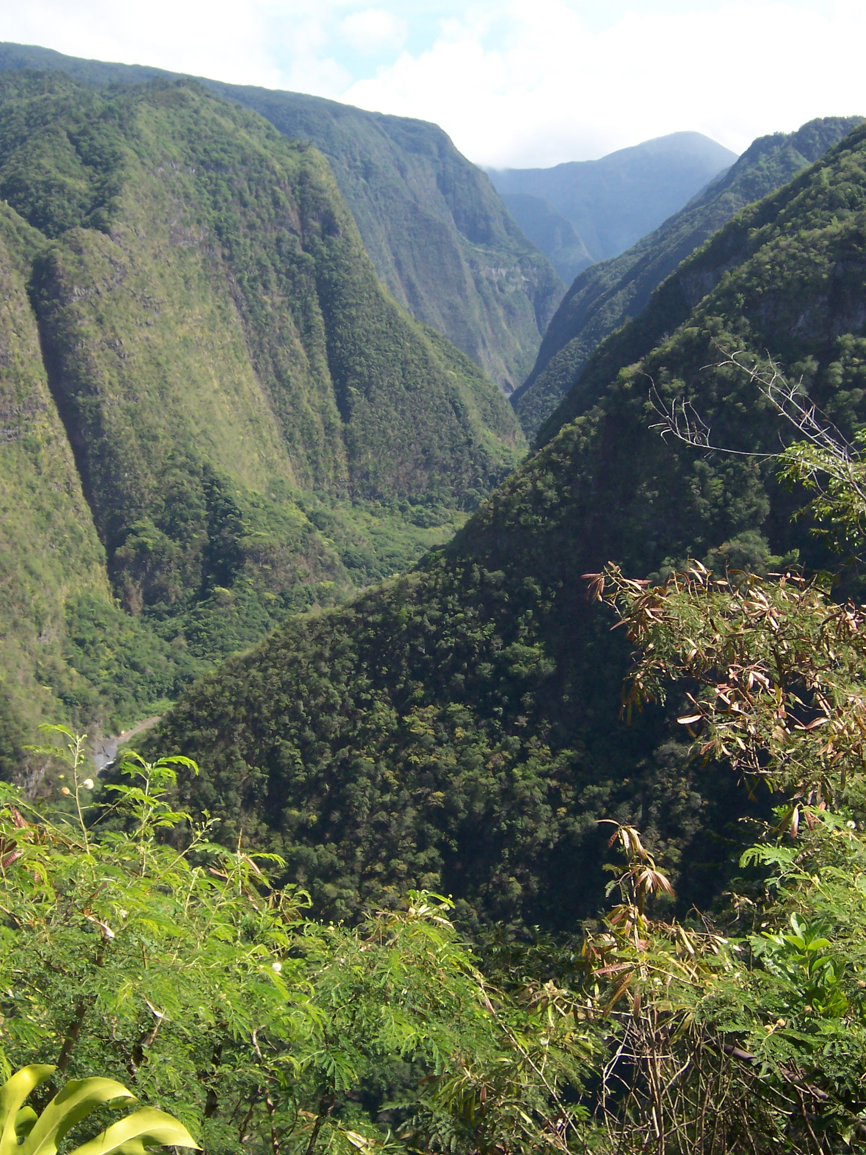 Bras de la Plaine canyon seen from the village of Bras de Pontho (Réunion island)